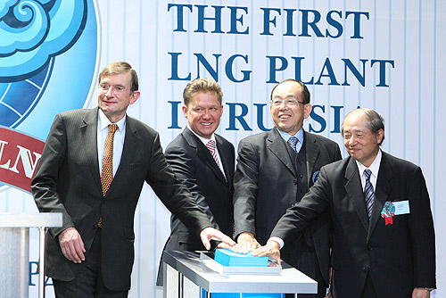 YUZHNO-SAKHALINSK. At the ceremony marking the opening of a liquefied natural gas production plant built as part of the Sakhalin-2 project. The directors of the companies that are shareholders in the project: Chief Executive Officer of Shell Jeroen van der Veer, Chairman of the Management Committee of Gazprom Alexei Miller, President of Mitsui Shoei Utsuda, and President of Mitsubishi Yorihiko Kojima.